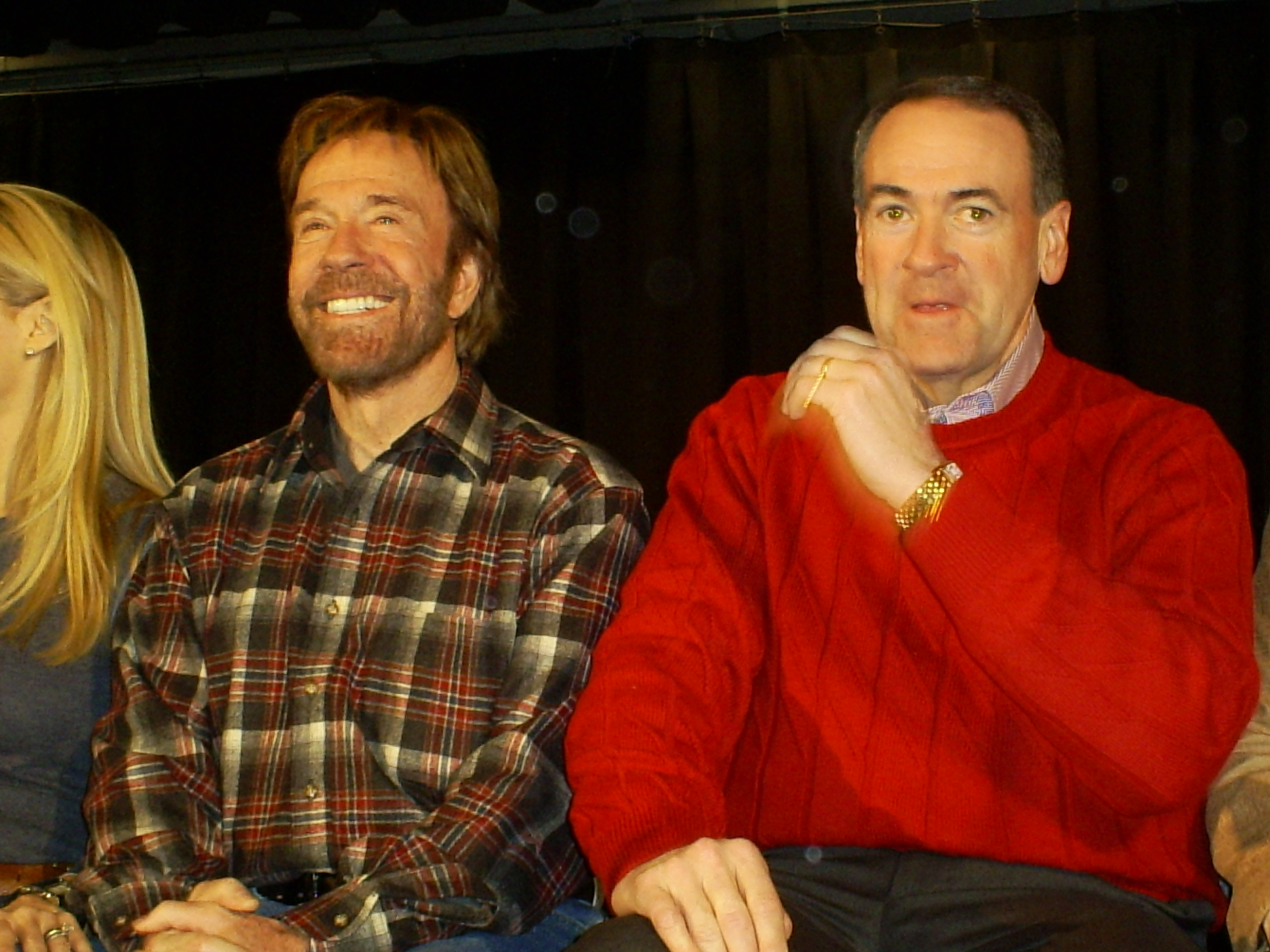 Photo by Craig Michaud.This was taken in 2008 at a campaign event for Mike Huckabee